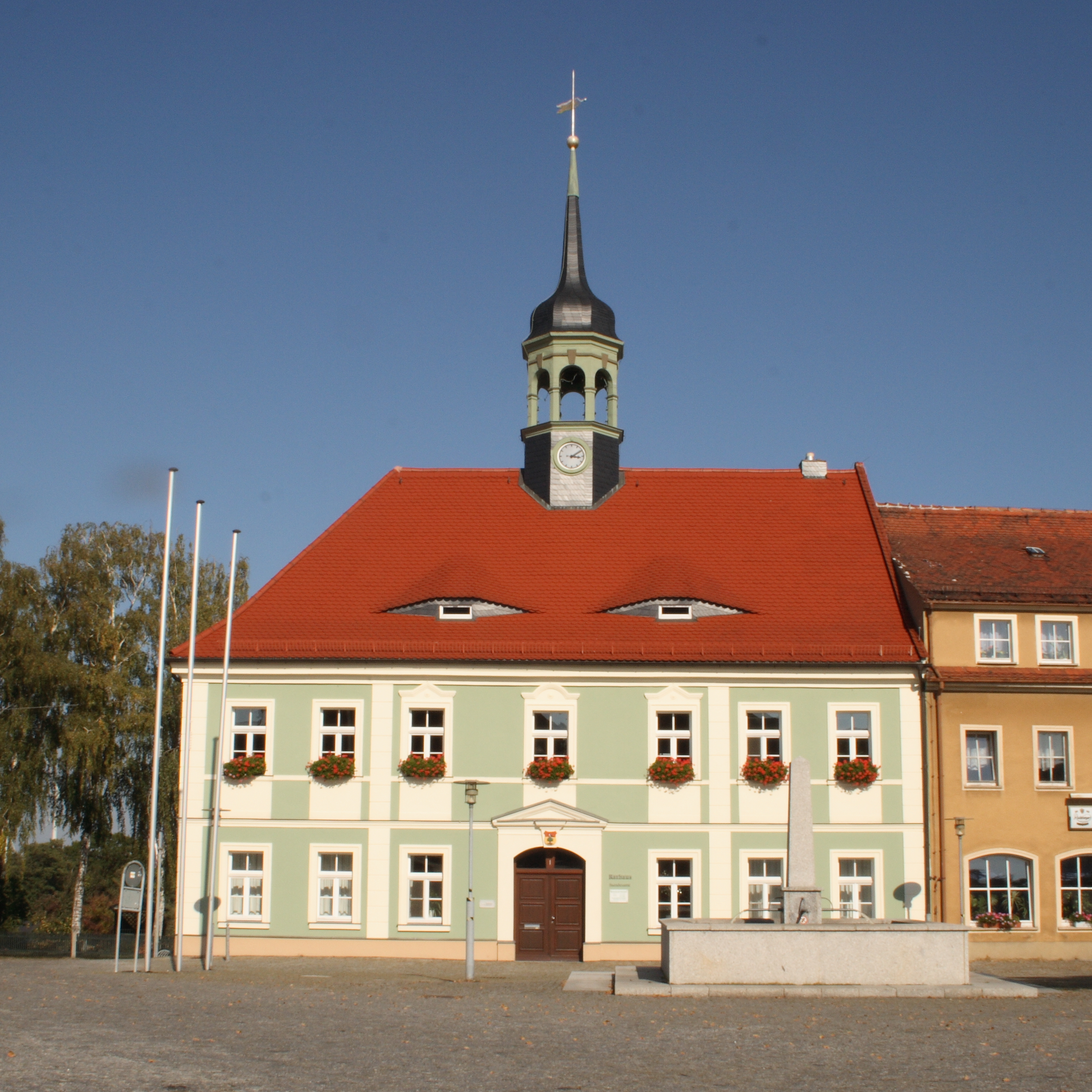 Town hall of Elstra/Germany.